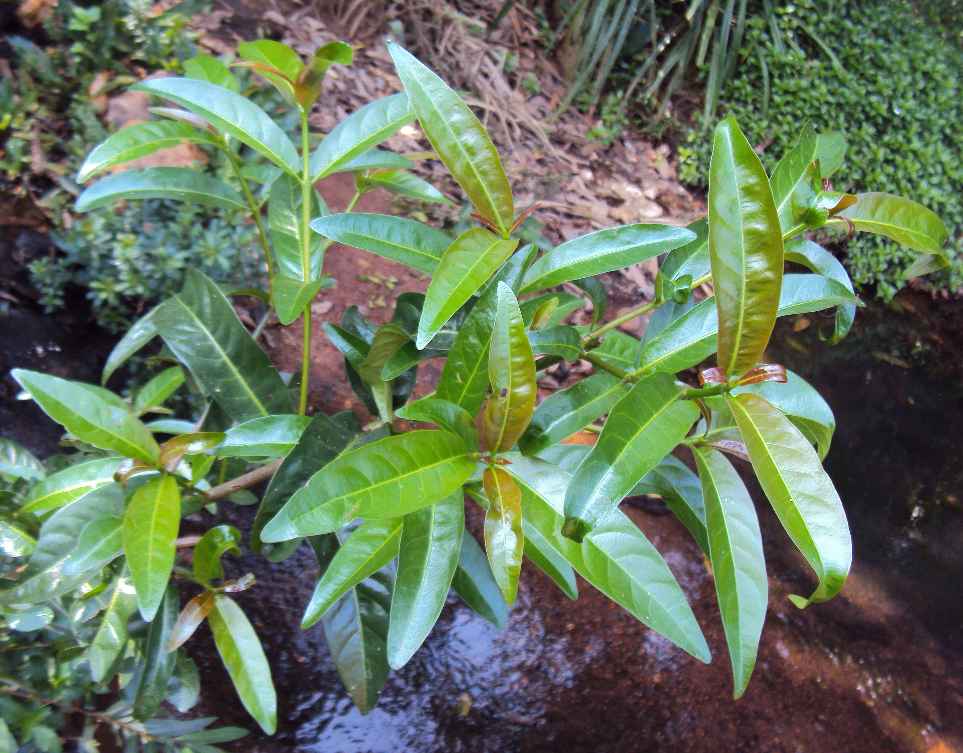 Ochreinauclea missionis